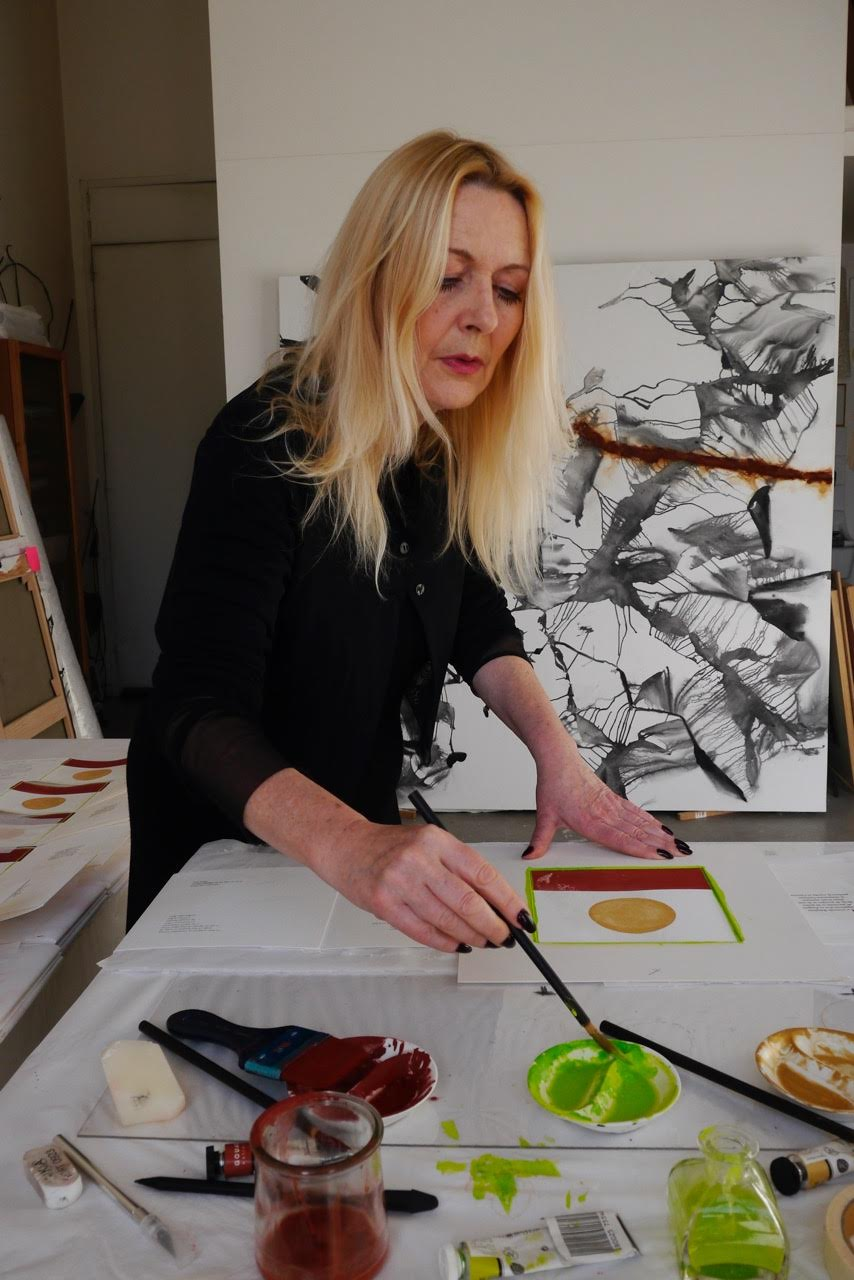 Portrait of French painter Patricia Erbelding in her Paris studio